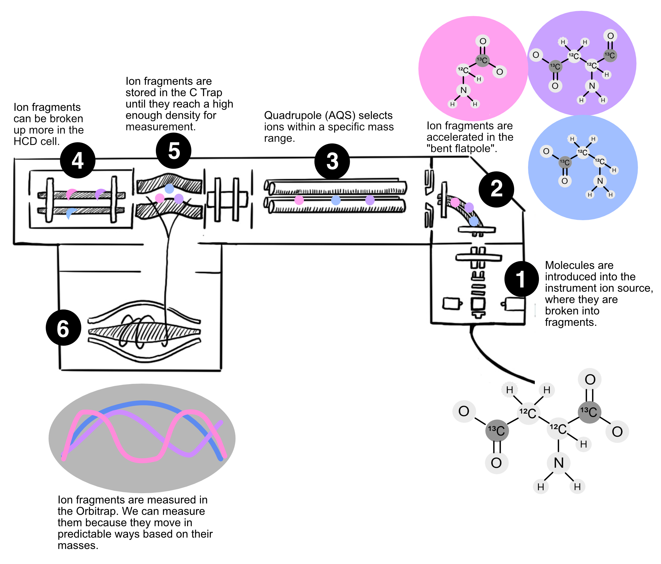 The Orbitrap allows for high-precision position specific isotope analysis by measuring fragment ions of molecules of interest. Image adapted from Eiler et al., 2017.